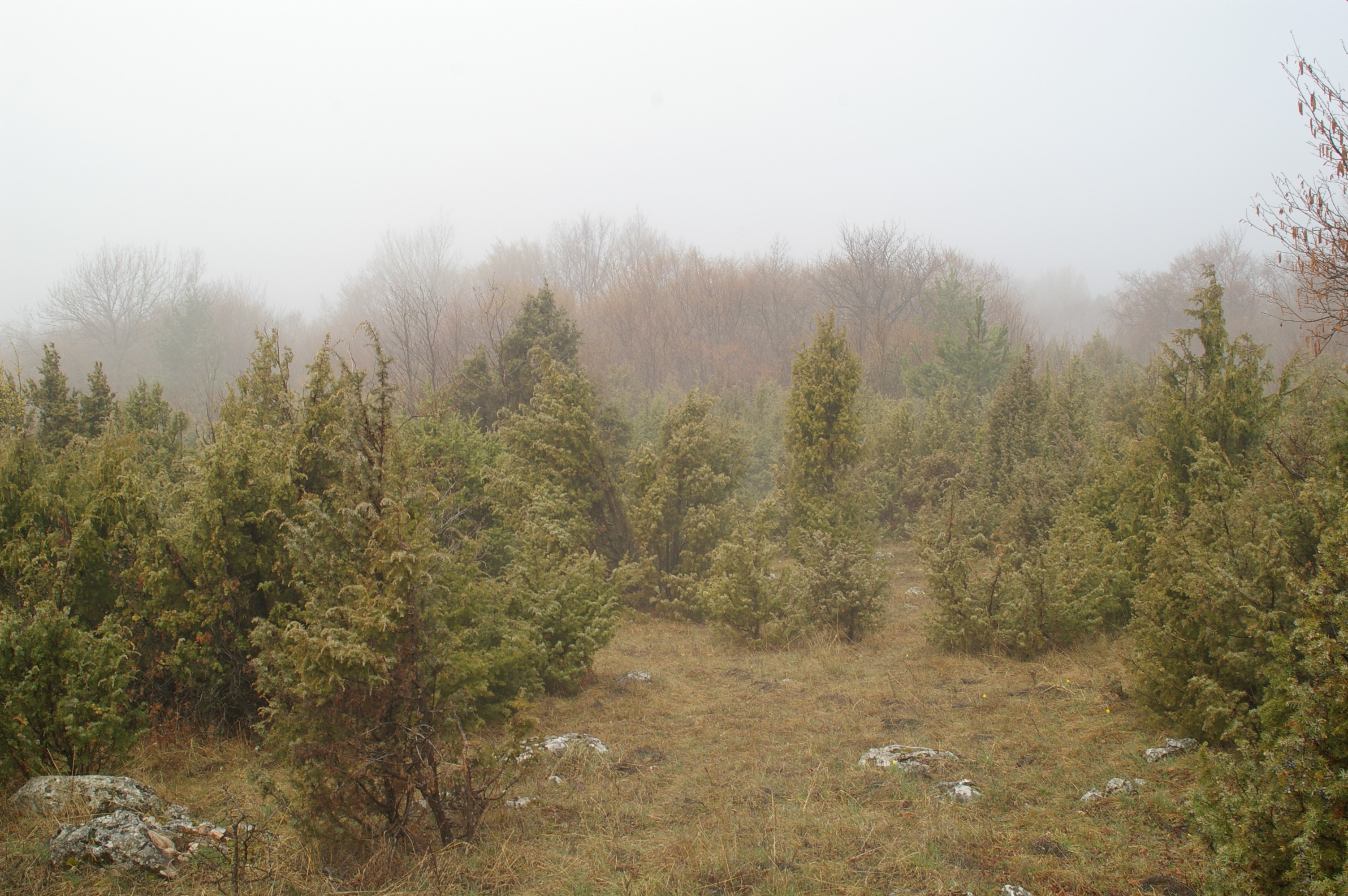 Jasovská planina